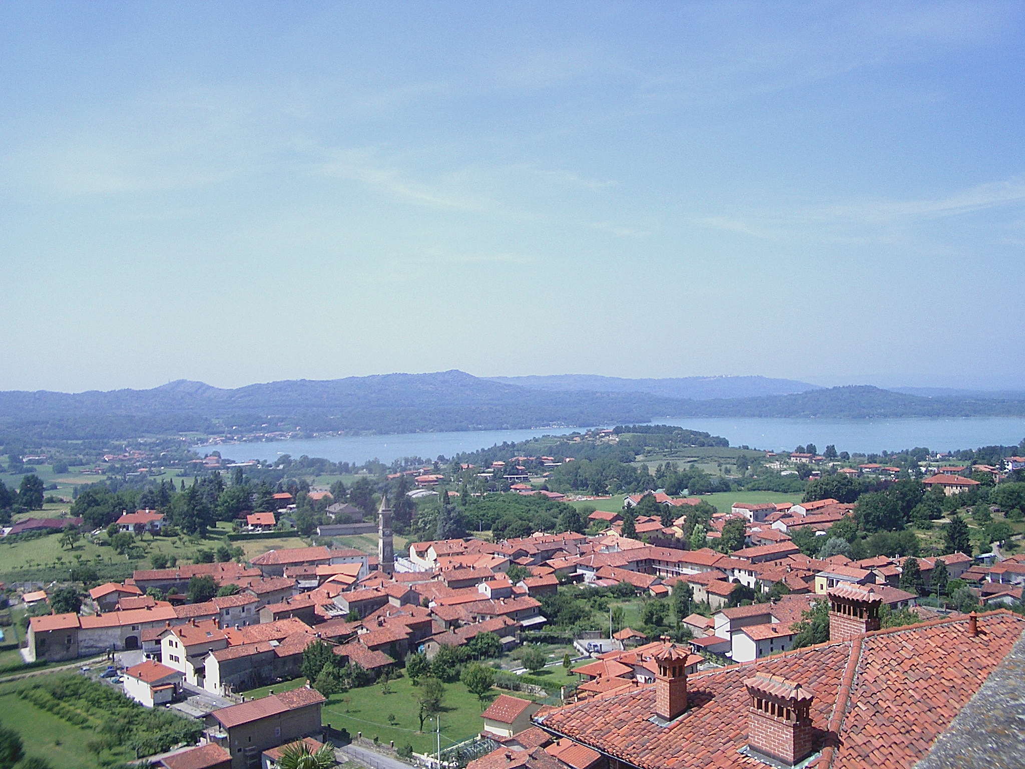 Landscape from the Castle, Roppolo, Province of Biella, Italy